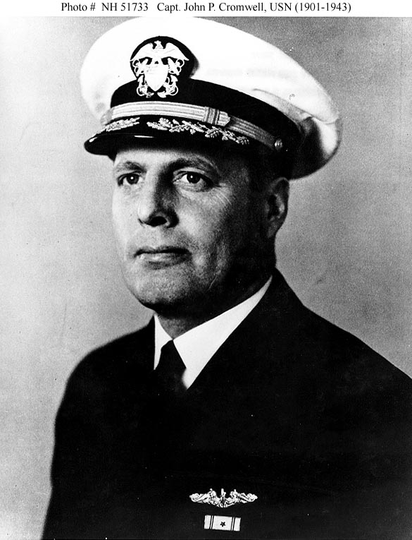 Image taken from the US Navy historical image library (